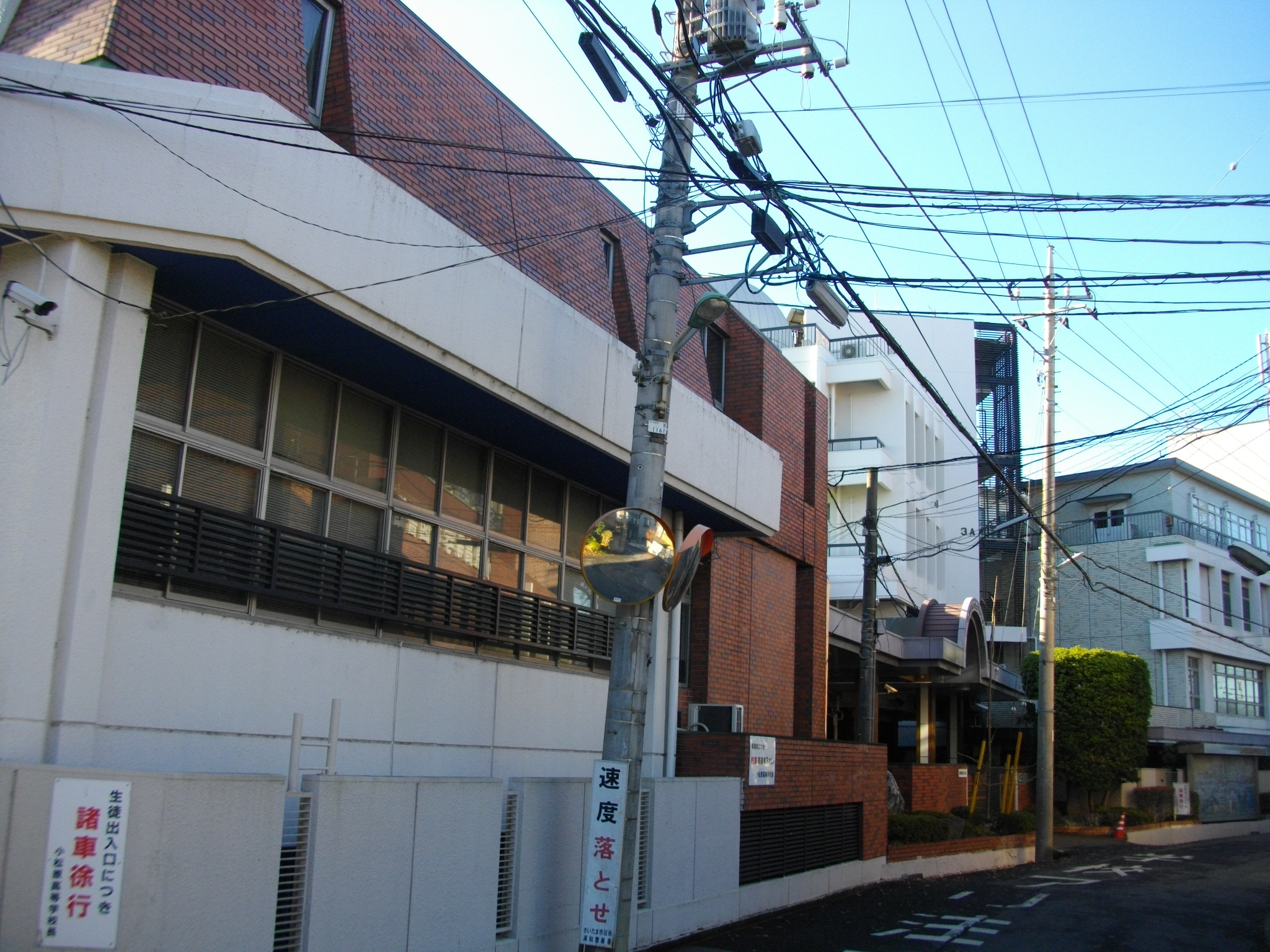 Komatsubara High School